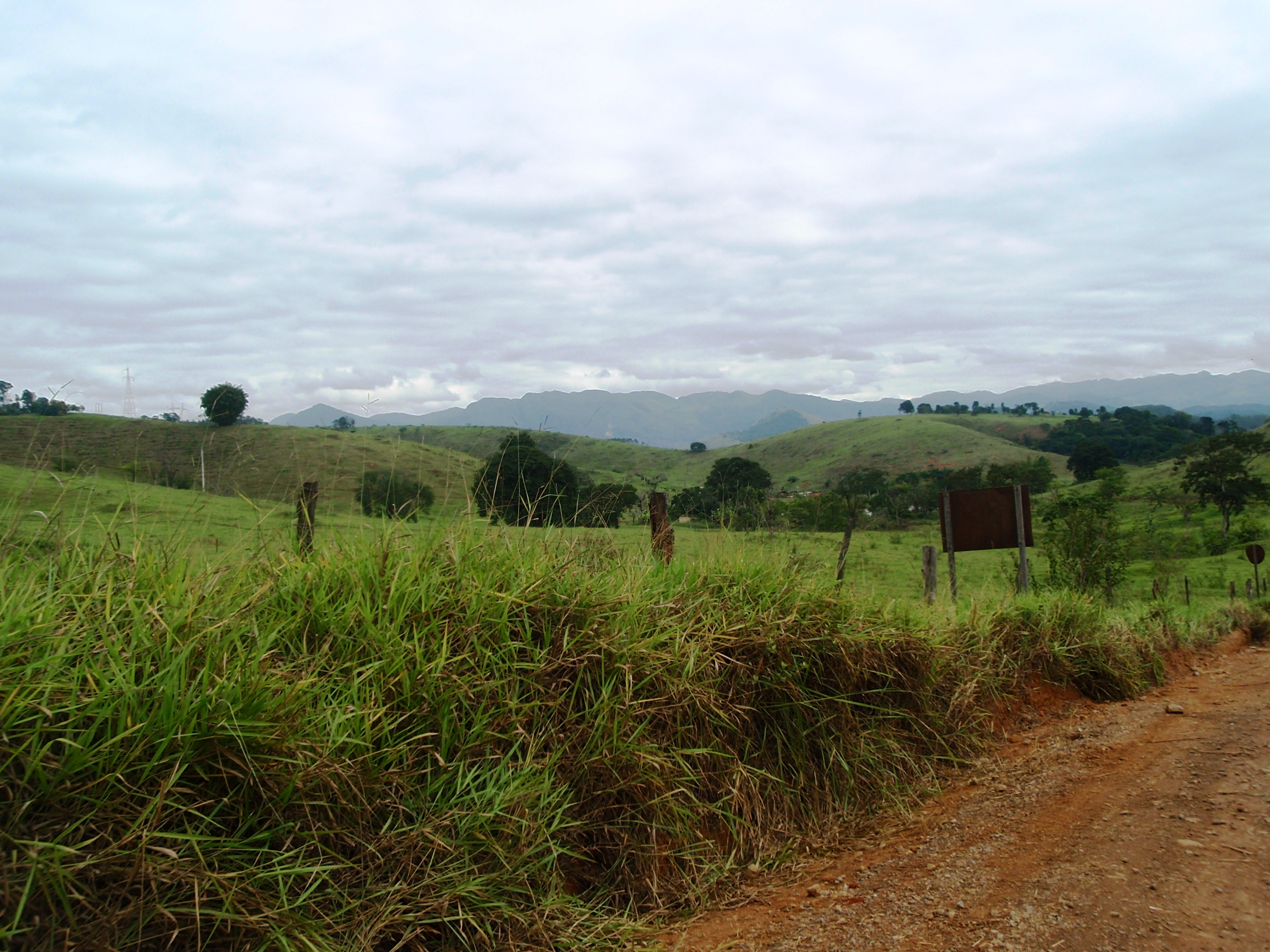 Countryside in Santana do Paraíso, Minas Gerais, Brazil.